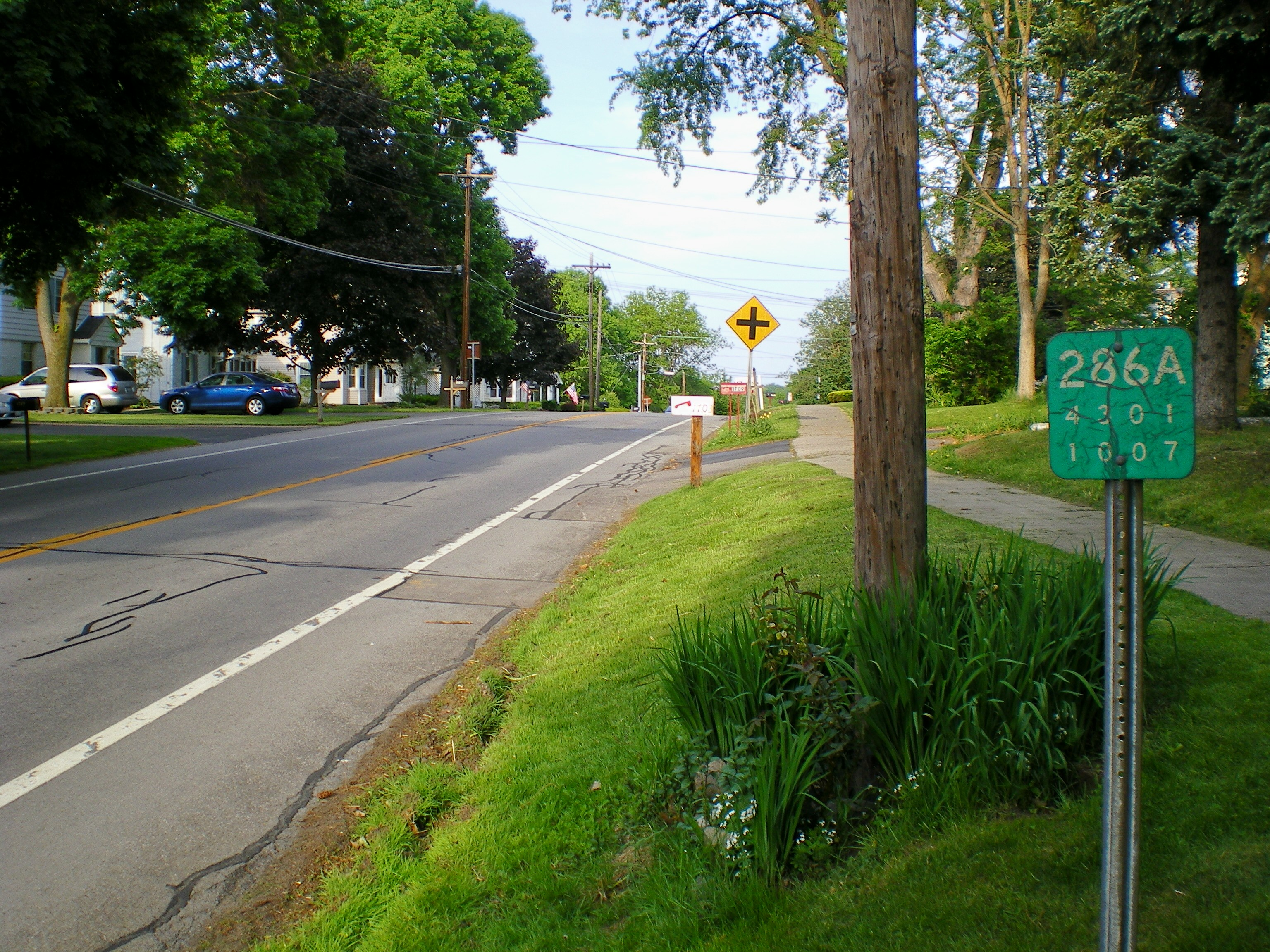 Reference marker for New York State Route 286A on Blossom Road in Brighton, New York. The NY 286A designation was removed in the early 1970s, and Blossom Road is now an unsigned reference route.